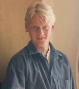 Ulrik Jansson at Magnus Stenbocksskolan in Helsingborg.